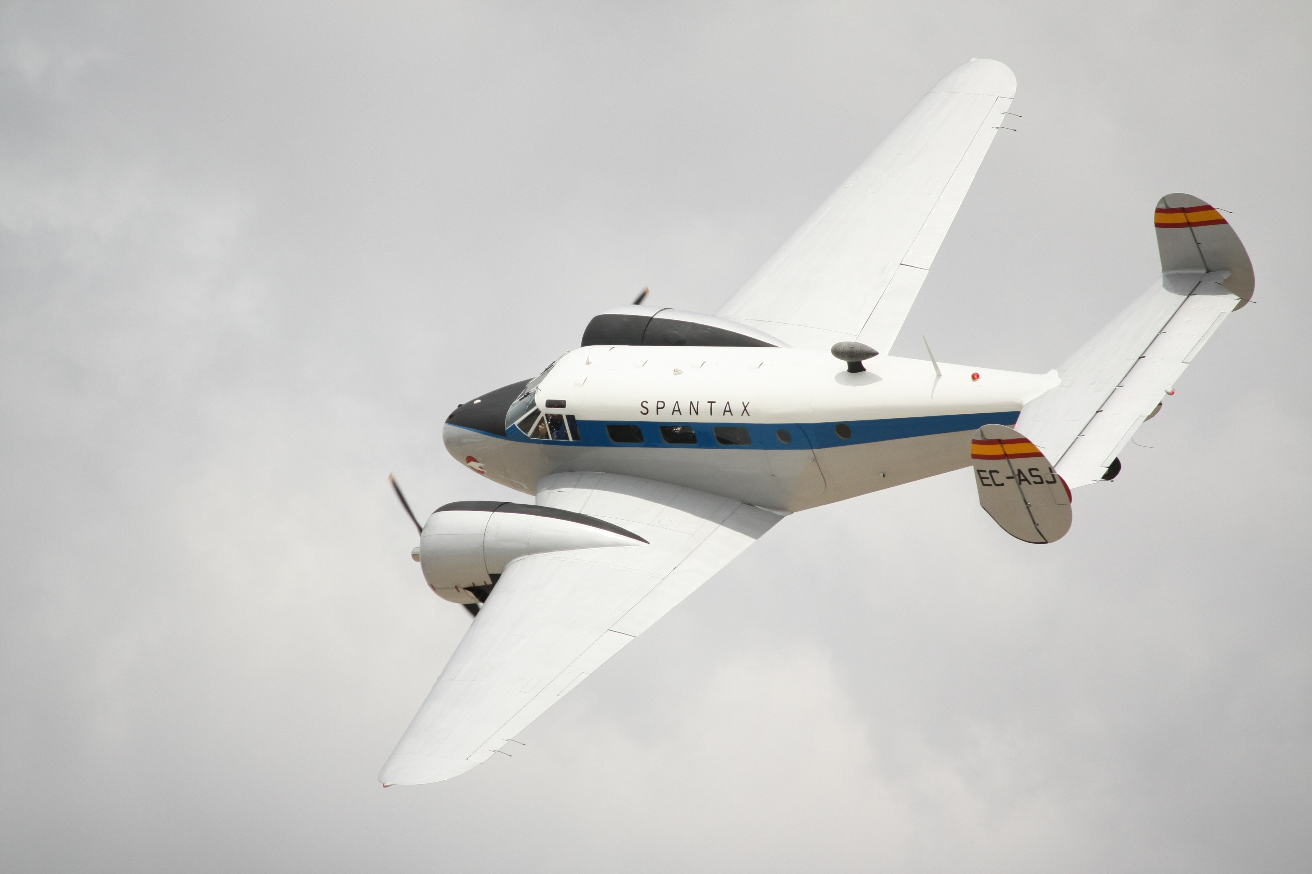 Spantax Beech C-45H Expeditor (18) of the Fundación Infante de Orléans (FIO) in Cuatro Vientos, Madrid, Spain.